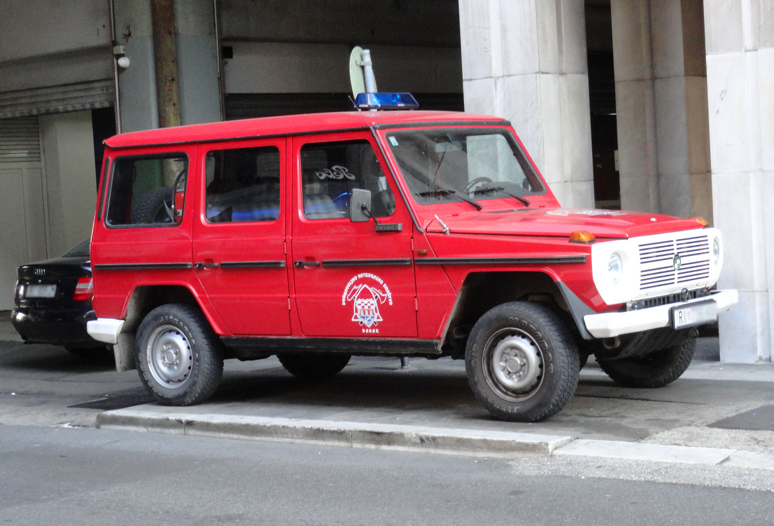 Bakar Volunteer Fire Department, Puch G-Class vehicle in Rijeka, Croatia